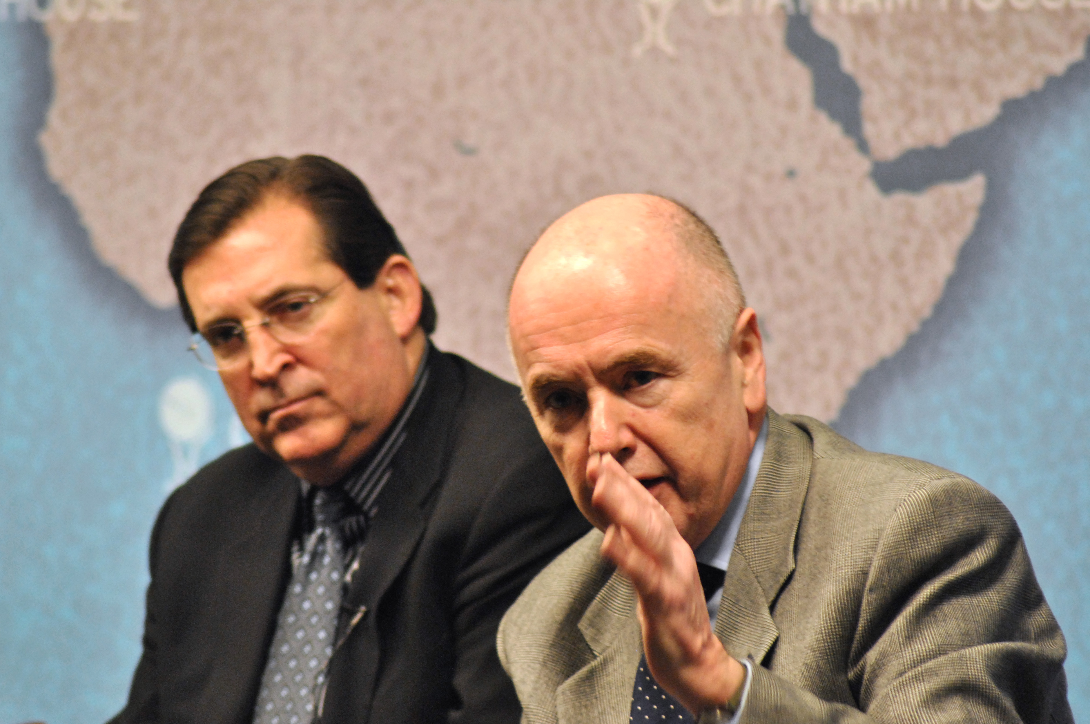 Global Migration: The Challenges for the West's Political Leaders, November 15 2011